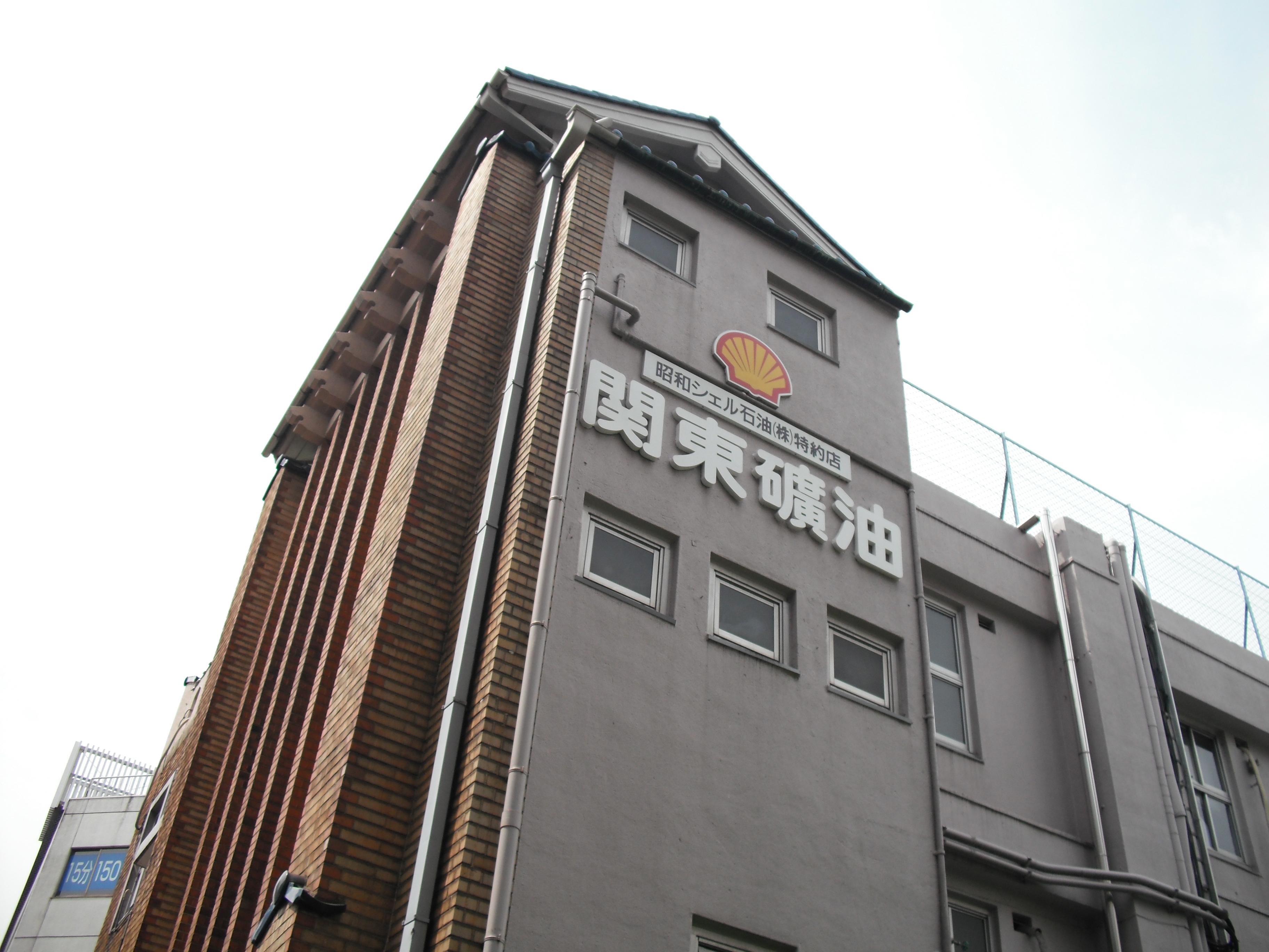 Headquater of the Kanto-koyu